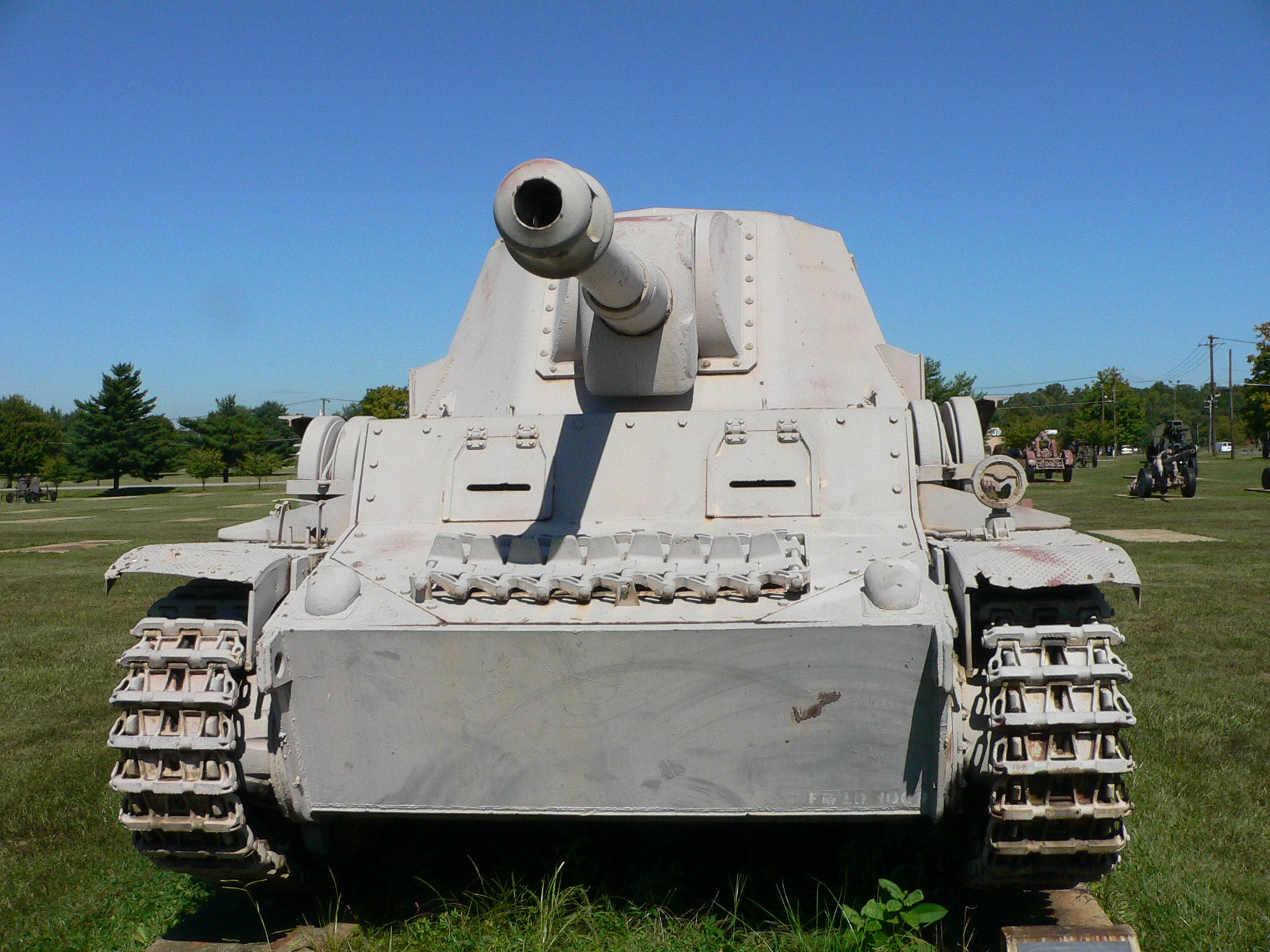 Picture taken by myself, Mark Pellegrini, at the United States Army Ordnance Museum (Aberdeen Proving Ground, MD)